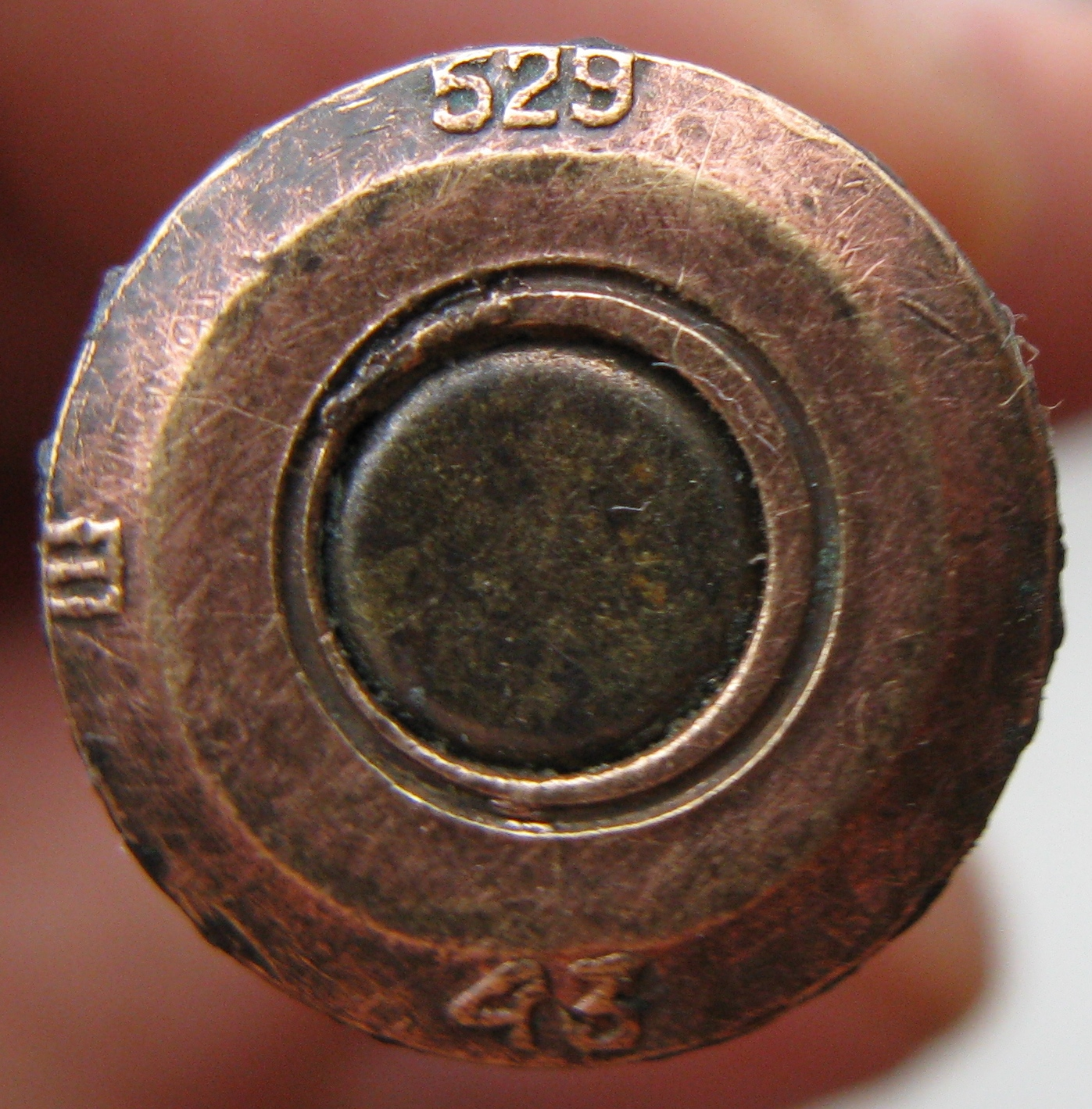 Sample branding patron 7.62x54 mm R for guns ShKAS (ШКАС).